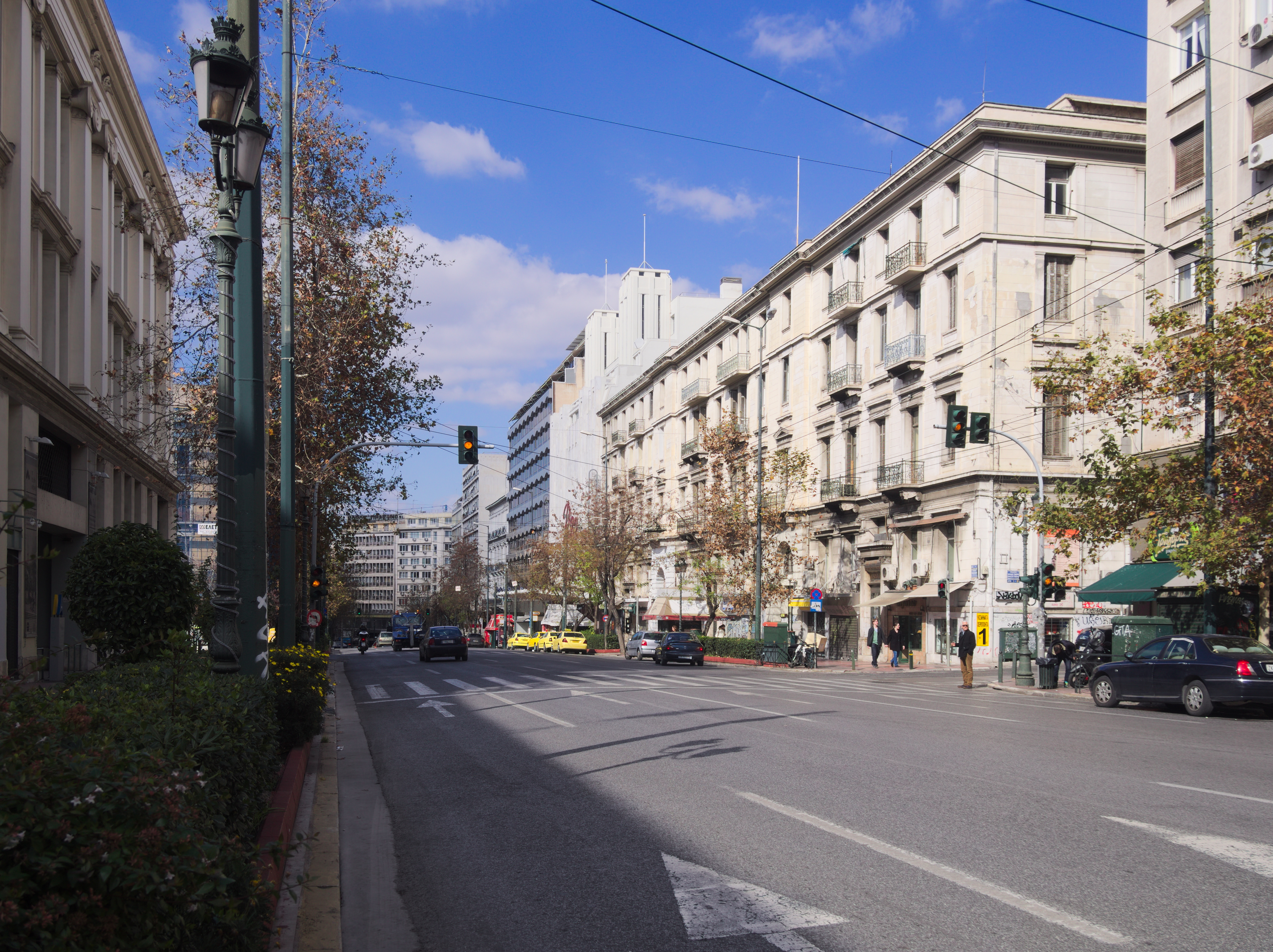 Panepistimiou avenue, Athens, view towards Omonia.